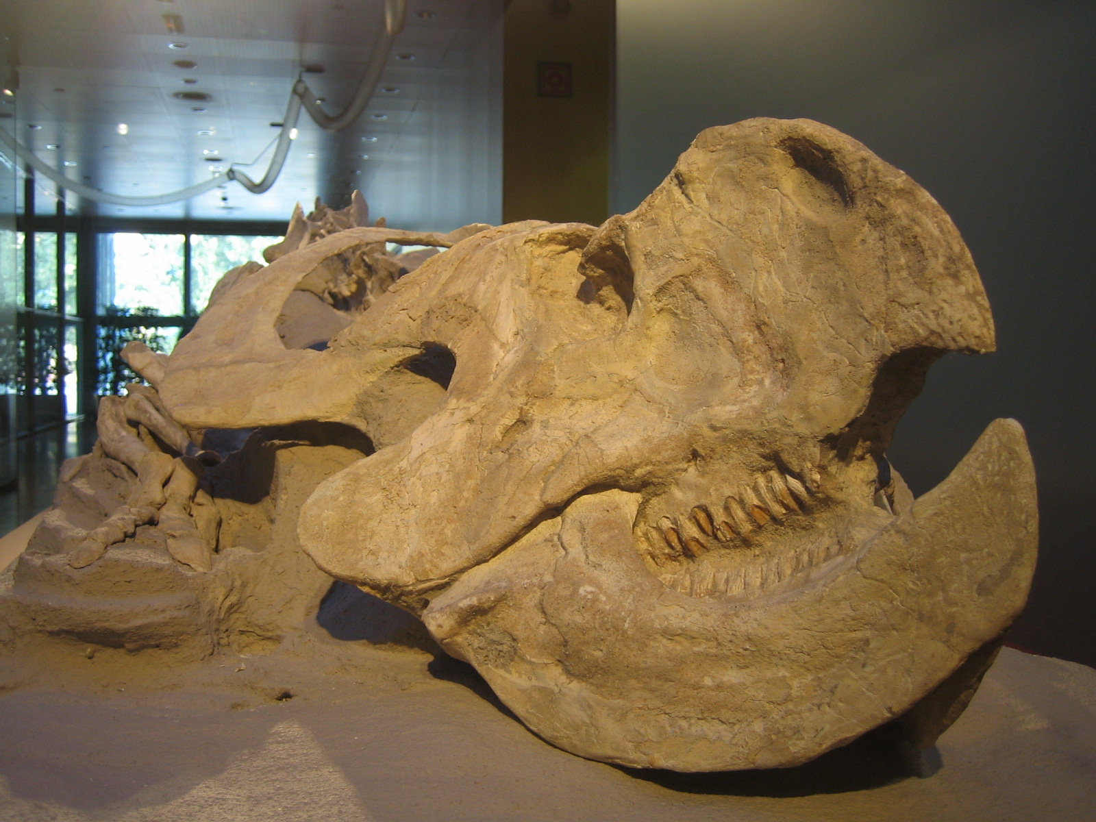 Protoceratops andrewsi in Cosmocaixa, Barcelona.